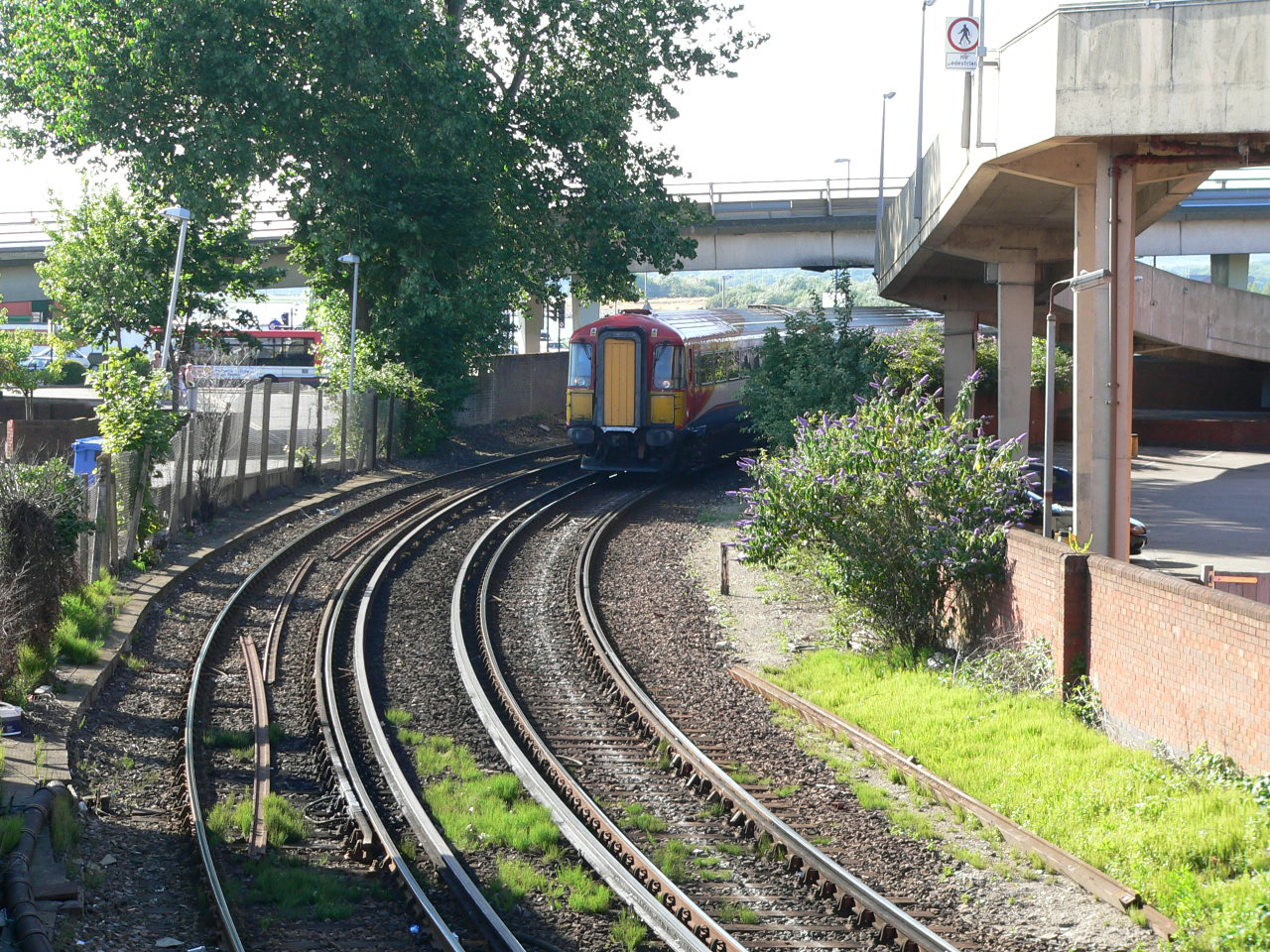 South West Trains Class 442 750v dc third rail EMU 442402 County of Hampshire leaves Poole and approaches the level crossing with High Street. Photographed from the pedestrian footbridge that prevents a train severing all communication between the upper and lower parts of the high street.